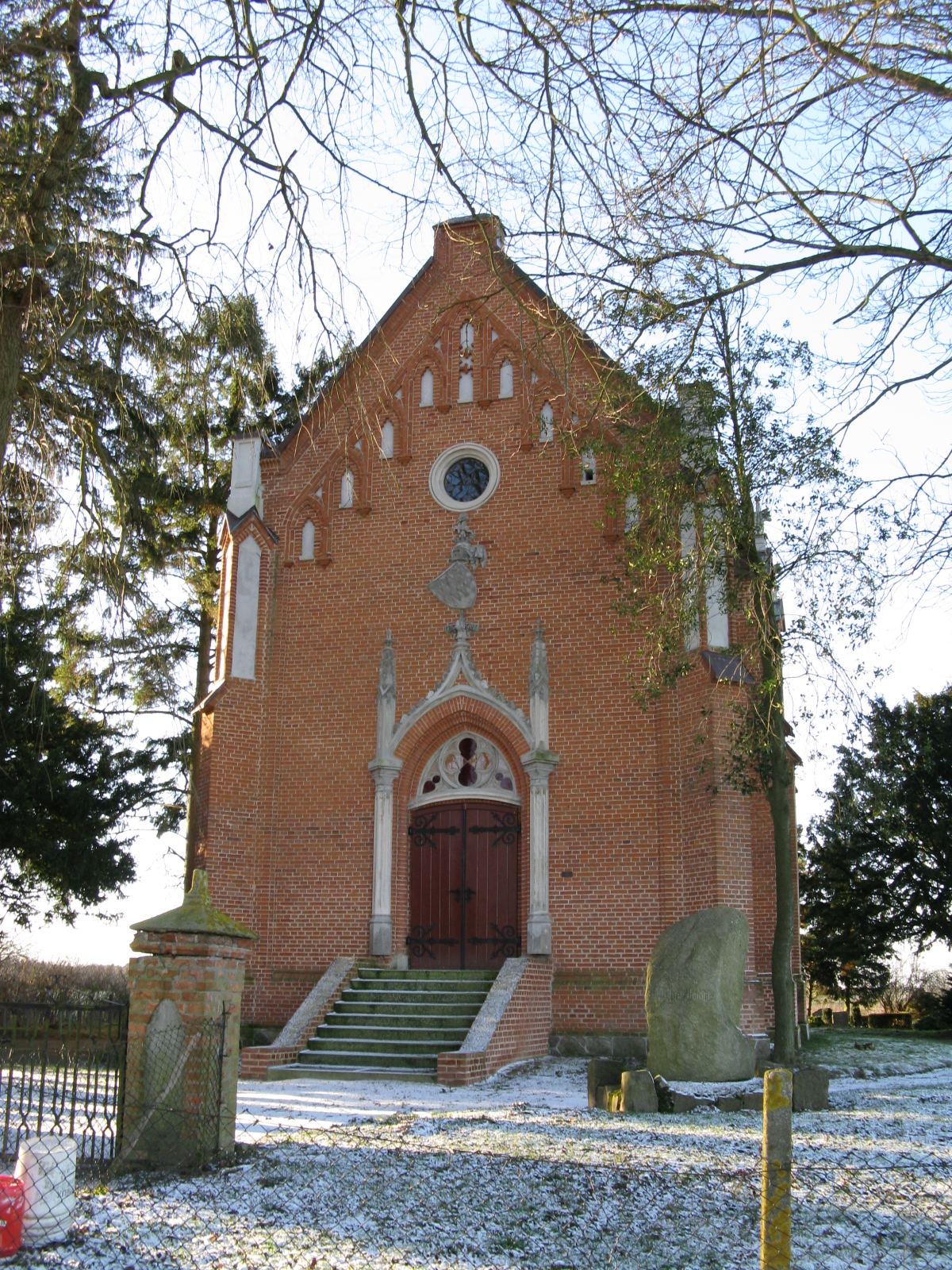 Chapel in Hülseburg, district Ludwigslust-Parchim, Mecklenburg-Vorpommern, Germany